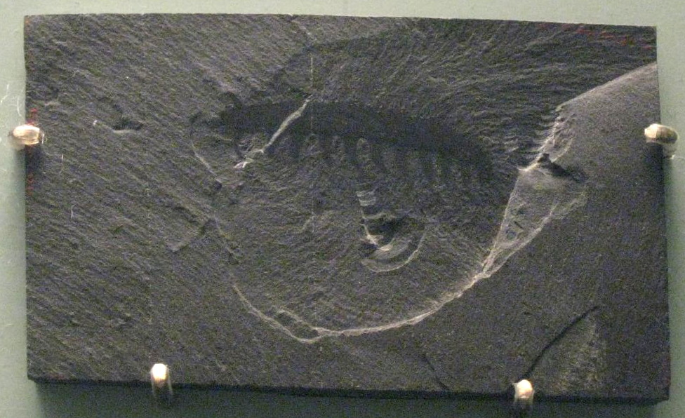 Aysheaia pedunculata, Early Cambrian; Burgess Shale, British Columbia, Canada.